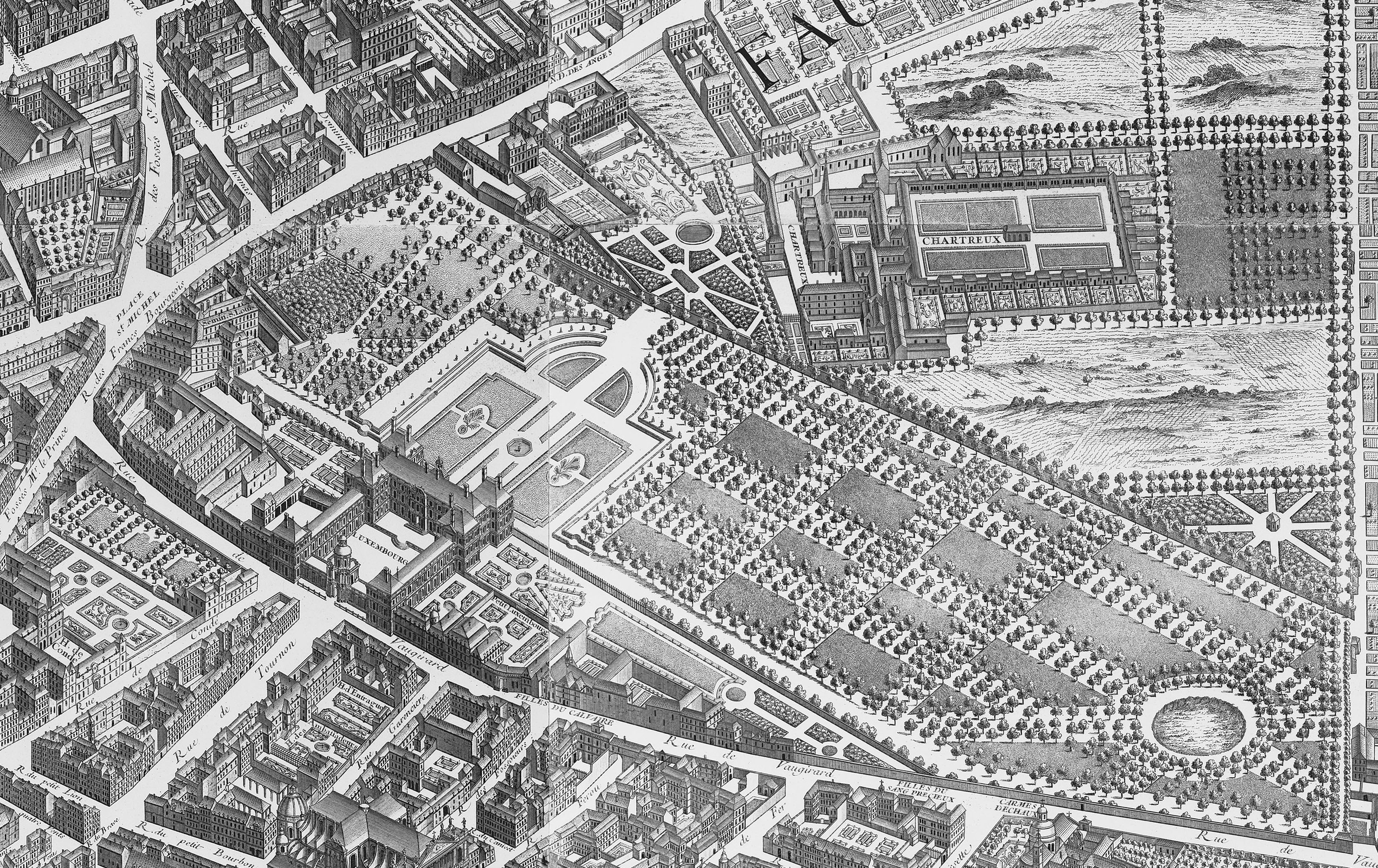 Detail from the 1739 Turgot map of Paris showing the Luxembourg Palace, the Petit Luxembourg, and the Luxembourg Gardens